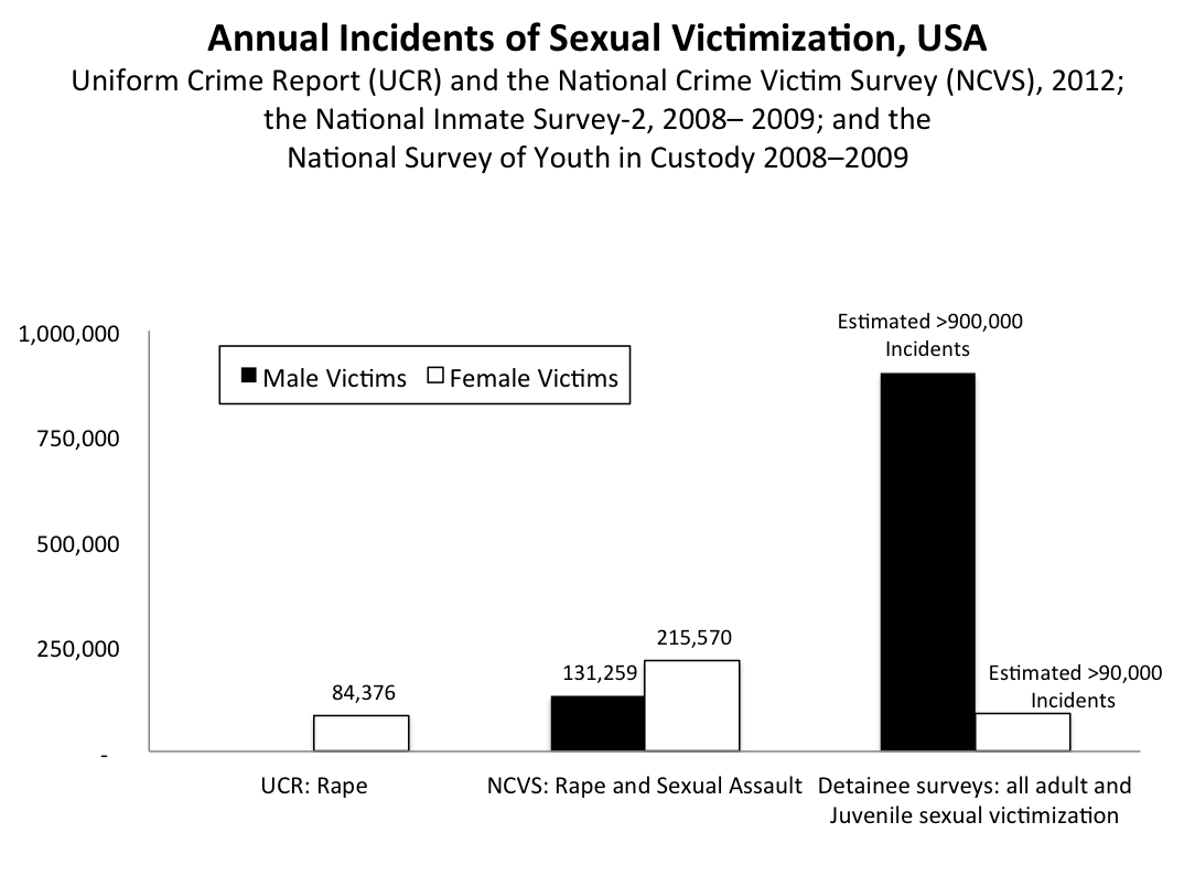 Chart I developed from data contained in a peer reviewed journal article, "The Sexual Victimization of Men in America: New Data Challenge Old Assumptions" by Lara Stemple, JD, and Ilan H. Meyer, PhD, which appeared in June 2014, Vol 104, No. 6 of the American Journal of Public Health Other information From article, "The Sexual Victimization of Men in America: New Data Challenge Old Assumptions" by Lara Stemple, JD, and Ilan H. Meyer